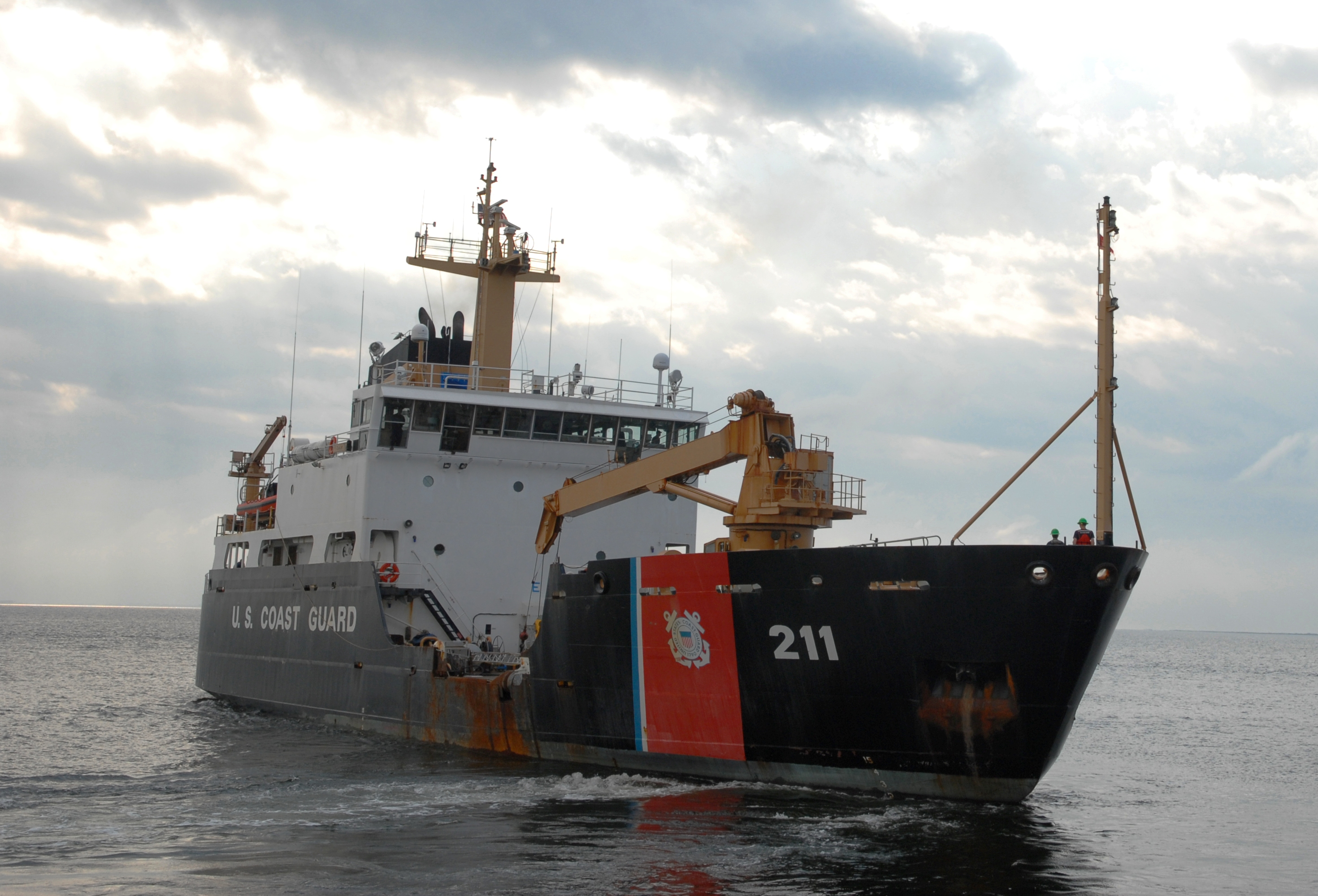 The U.S. Coast Guard seagoing buoy tender USCGC Oak (WLB 211) gets underway from Naval Air Station Pensacola to support cleanup efforts from the Deepwater Horizon oil spill.